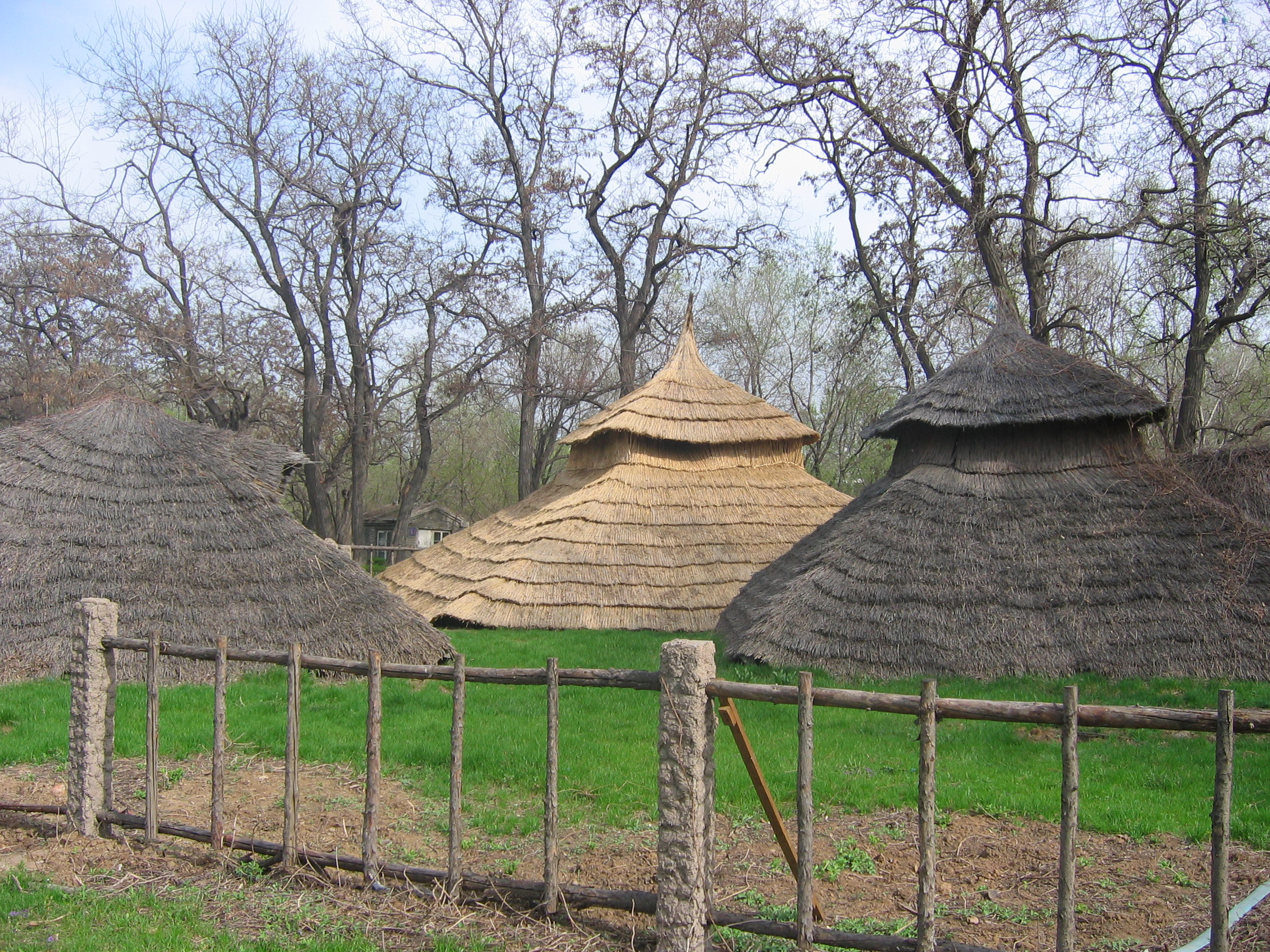 Photograph of the reconstructed Xinle village in Shenyang, China.